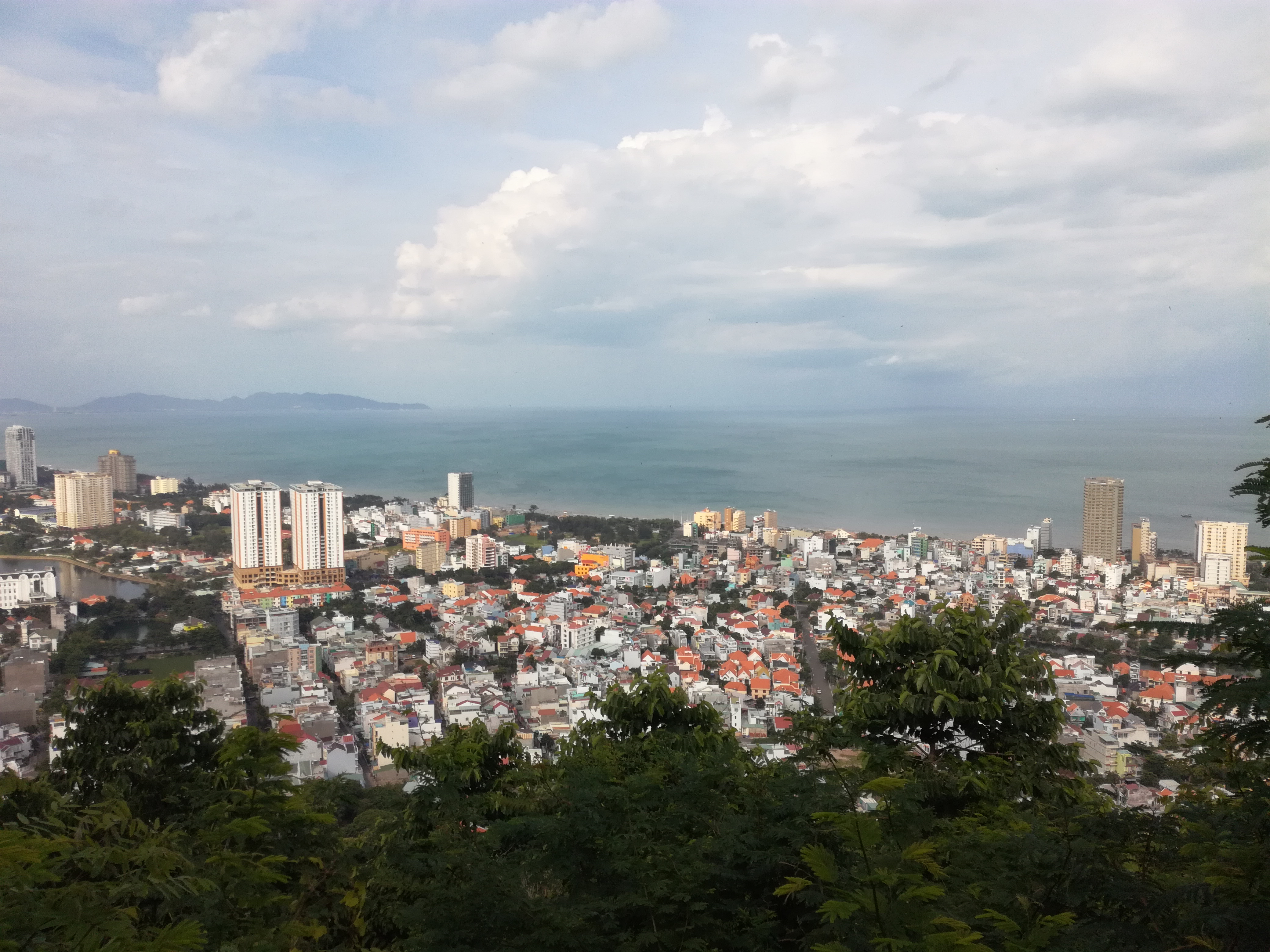 View of Vung Tau from Vung Tau lighthouse (August 3, 2018)